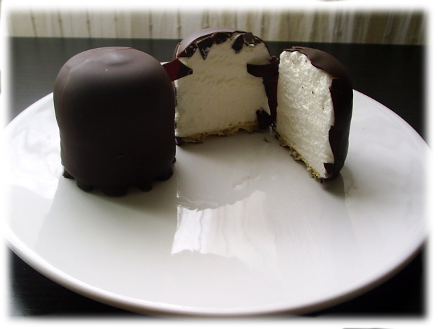 Vegan meringue and chocolate sweet bought at Lidl supermarket